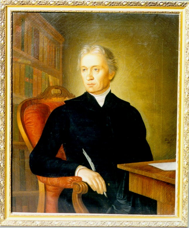 Valentini Kis / Kiss Bálint (1772-1853) hungarian calvinist pastor. Painted by Zoó János, 1881.